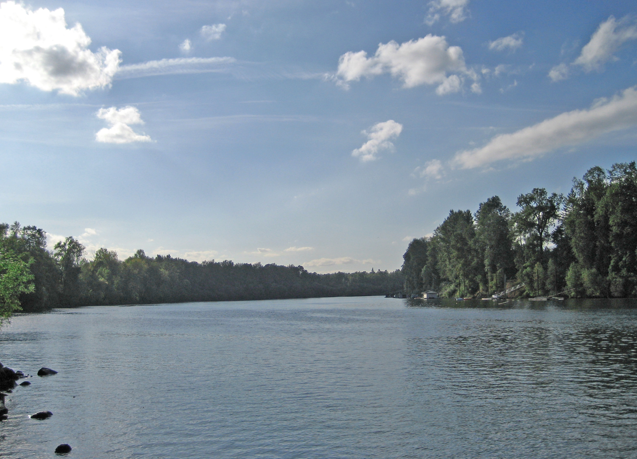 This photograph is a retouched derivative work of this image Made by: Aboutmovies Retouched by: Fcb981 for shadow detail.